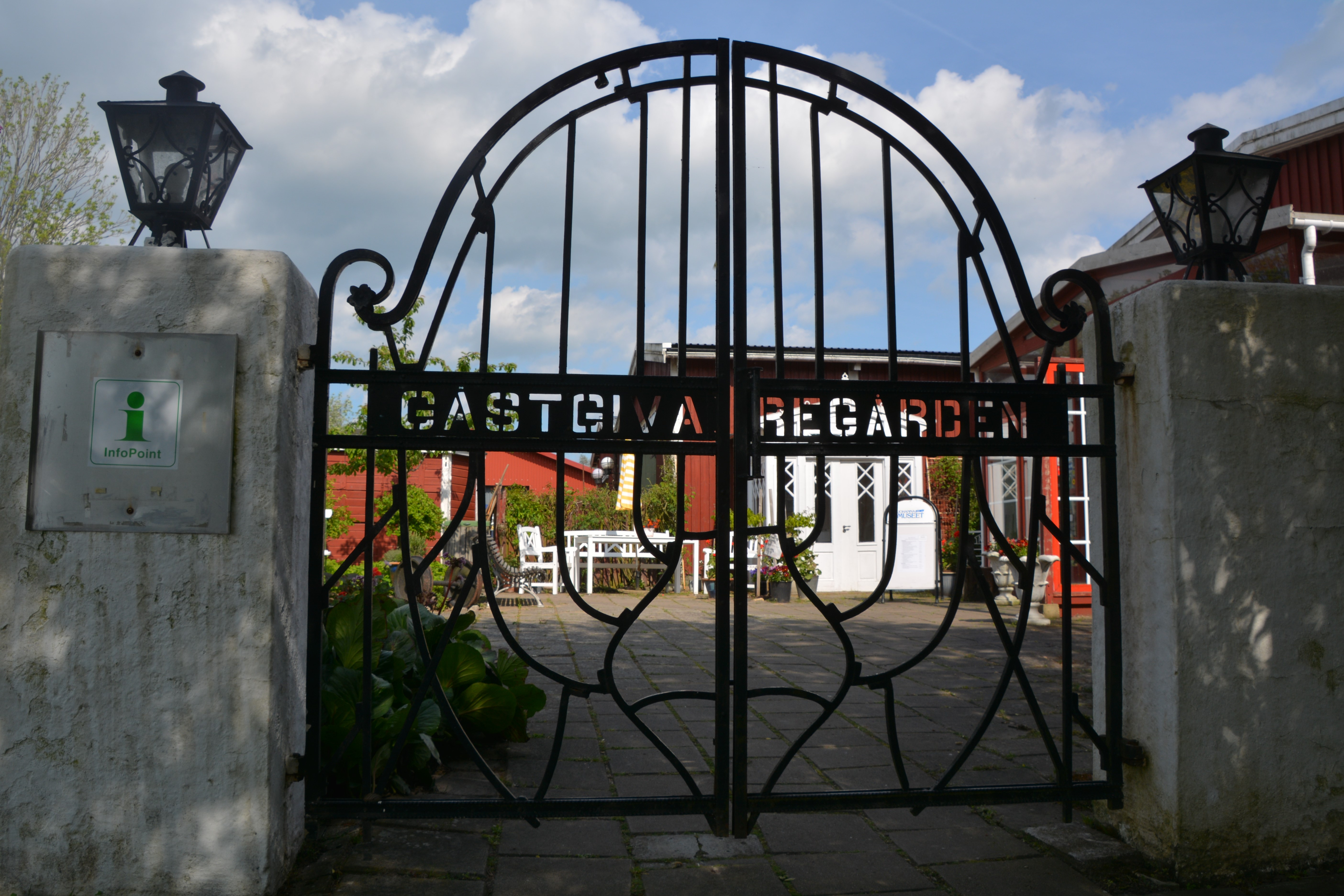 Iron gates at former Anderslöv Inn, Skåne, Sweden, now at Johanna Museum, Skurup